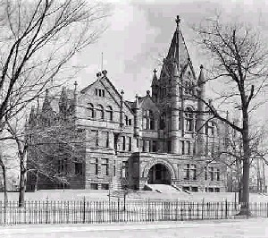 Victoria College photo taken in 1900